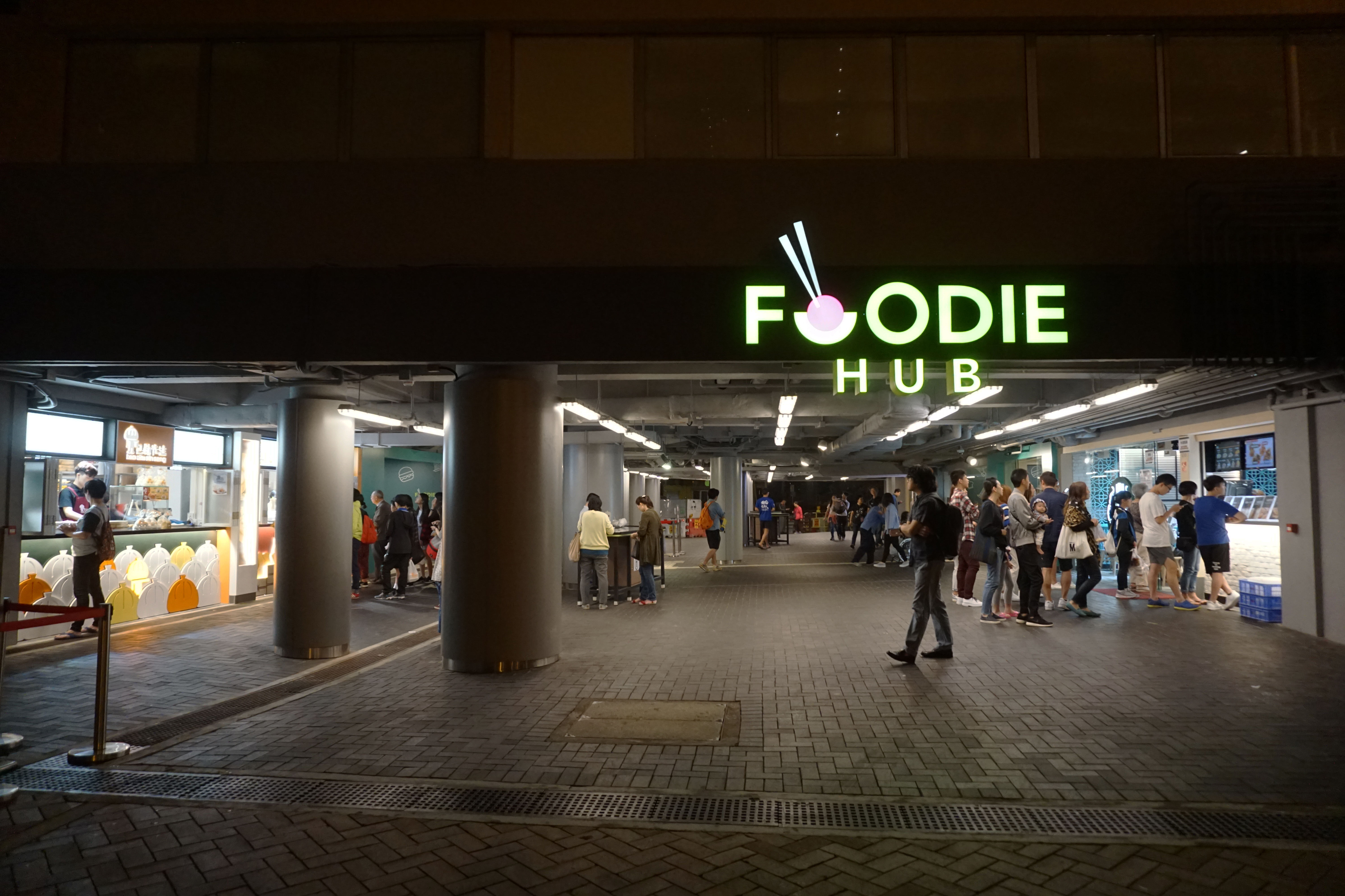 Foodie Hub in Chai Wan, Hong Kong.